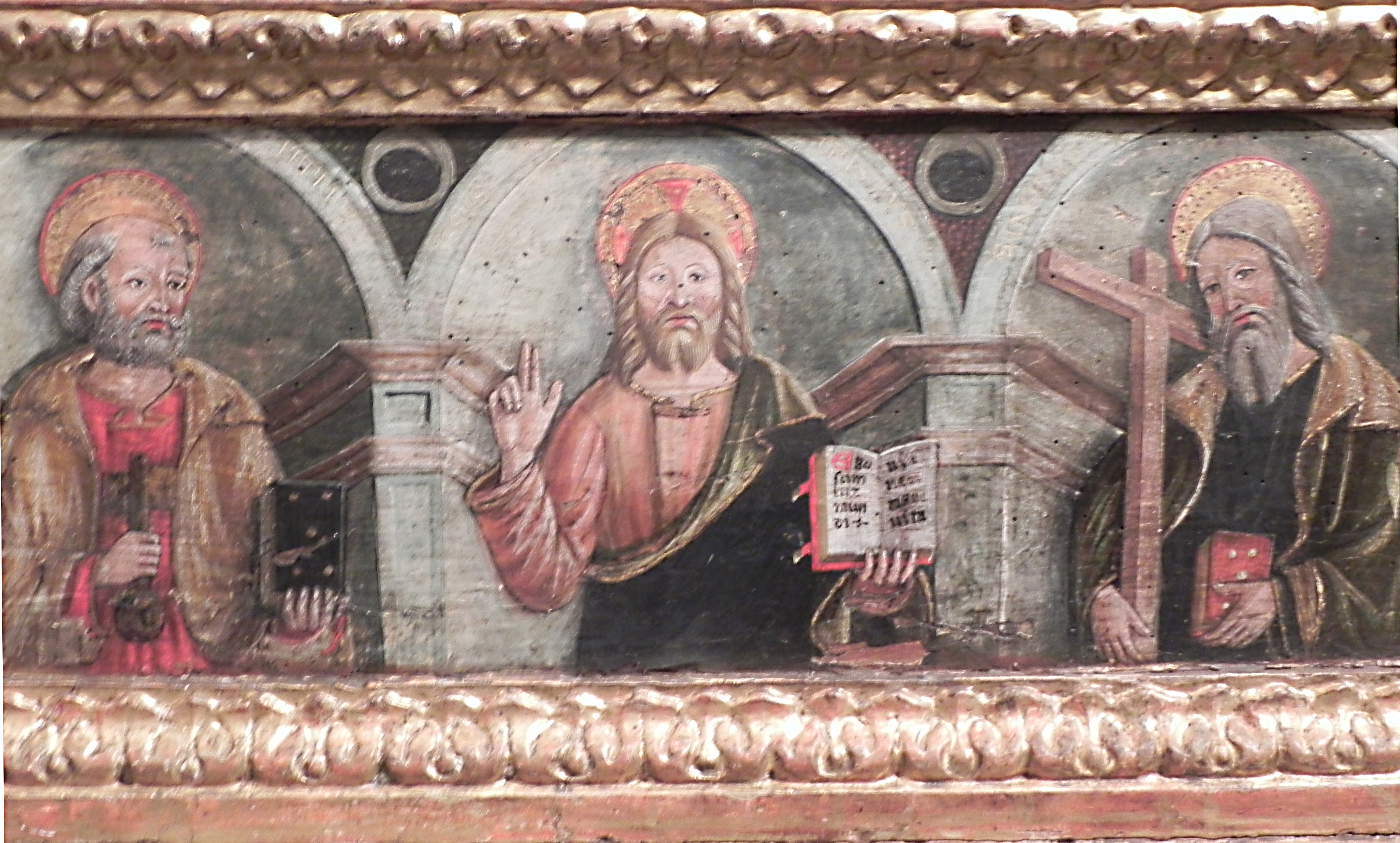 Detail of the predella of the Pietro Bussolo "Wooden altarpiece", painted by anonymous Lombard painter on the XVcent. Detail with Jesus between St, Peter (left) and St. Andrew (right) Museo Diocesano Adriano Bernareggi, Bergamo